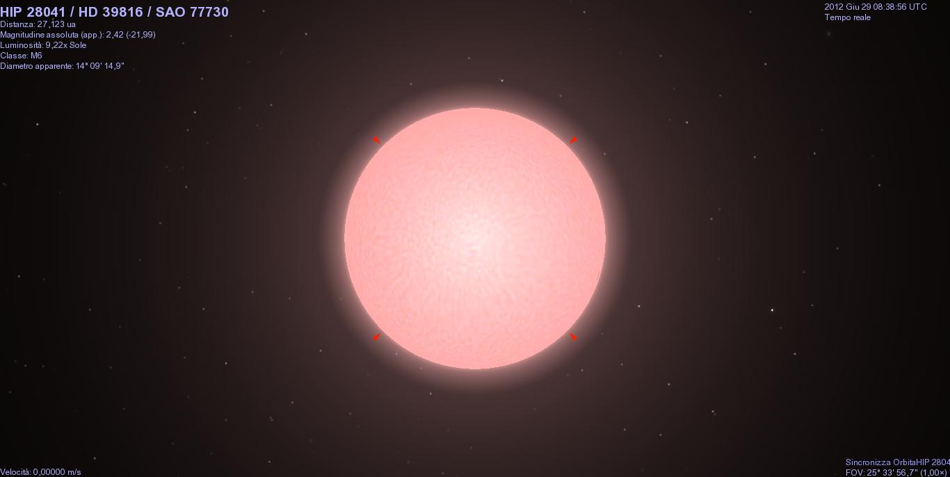 HD 39816 in Celestia